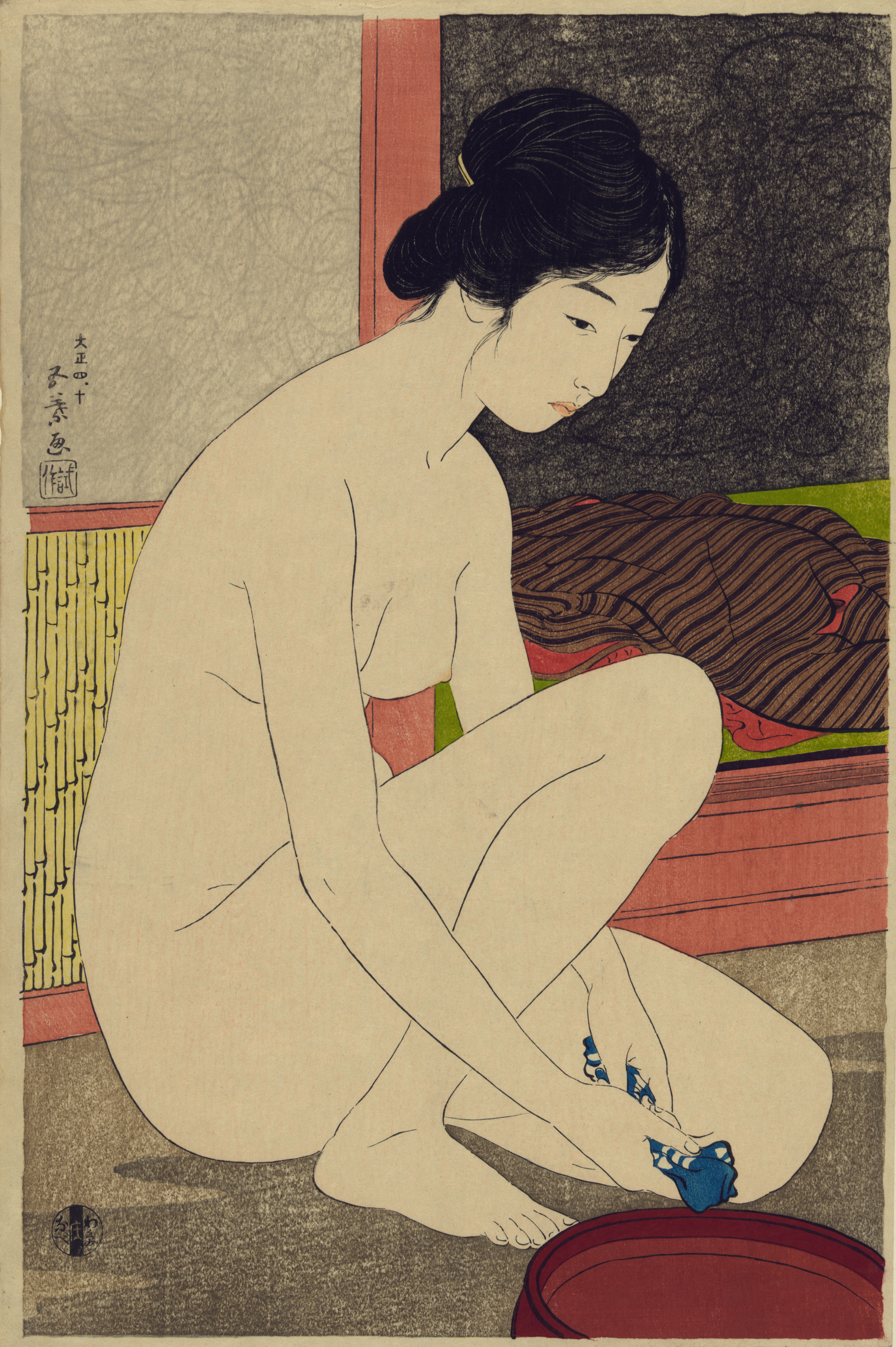 Portrait of a Japanese woman after a bath. Colour woodcut print in the Shin-Hanga style, 40.1 x 26.1 cm